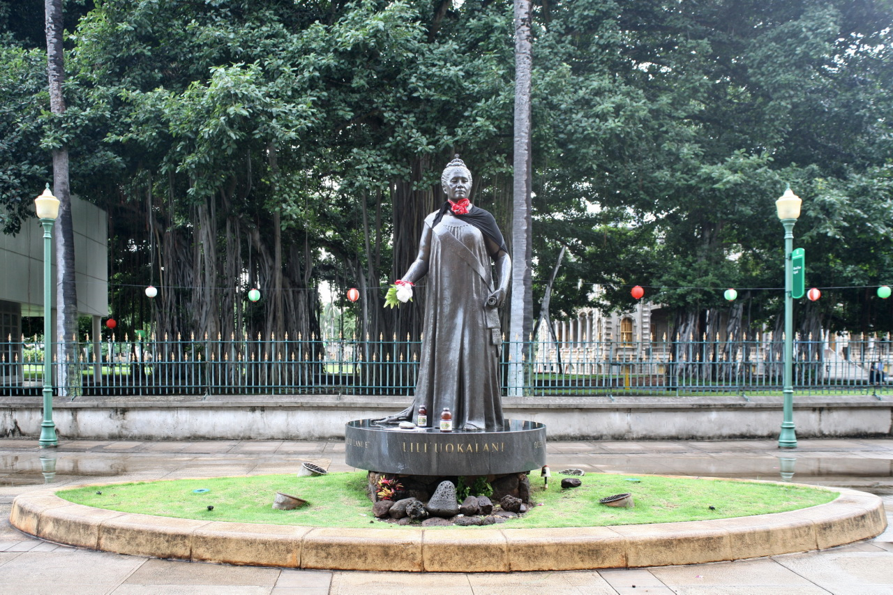 A bronze statue of Hawai’i's Queen Lili’uokalani by Marianna Pineda, 1980, located on the south side of the Hawai’i State Capitol. It was dedicated in April of 1982